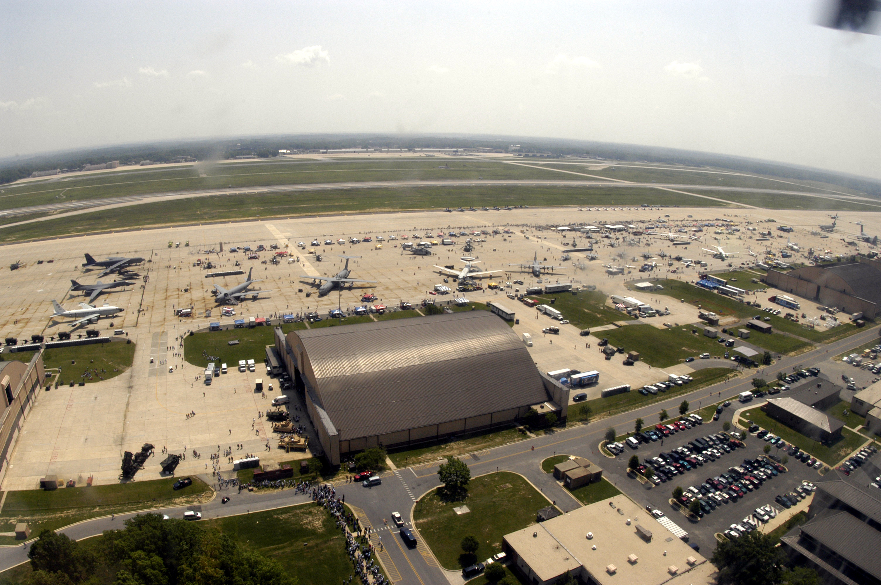 Andrews Air Force Base, Md. (May 14, 2004) – An aerial view of Andrews Air Force Base flight line during the first day of the 2004 Joint Service Open House. The Open House, held on May 14-16th, showcased civilian and military aircraft from the Nation’s armed forces which provided many flight demonstrations and static displays. U.S. Navy photo by Photographer’s Mate 2nd Class Daniel J. McLain (RELEASED).